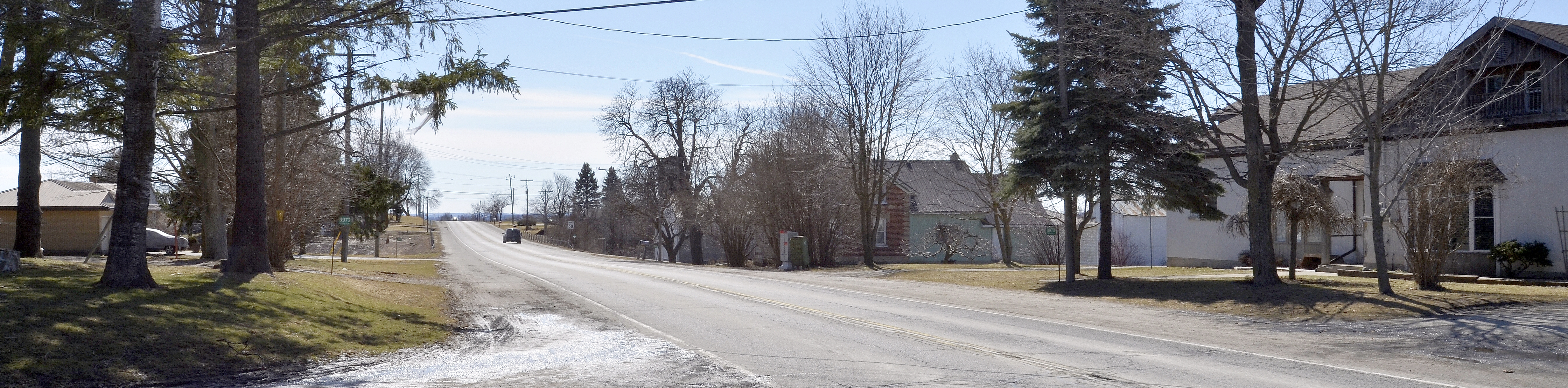 Looking south on County Road 21 in North Woolwich, Ontario.